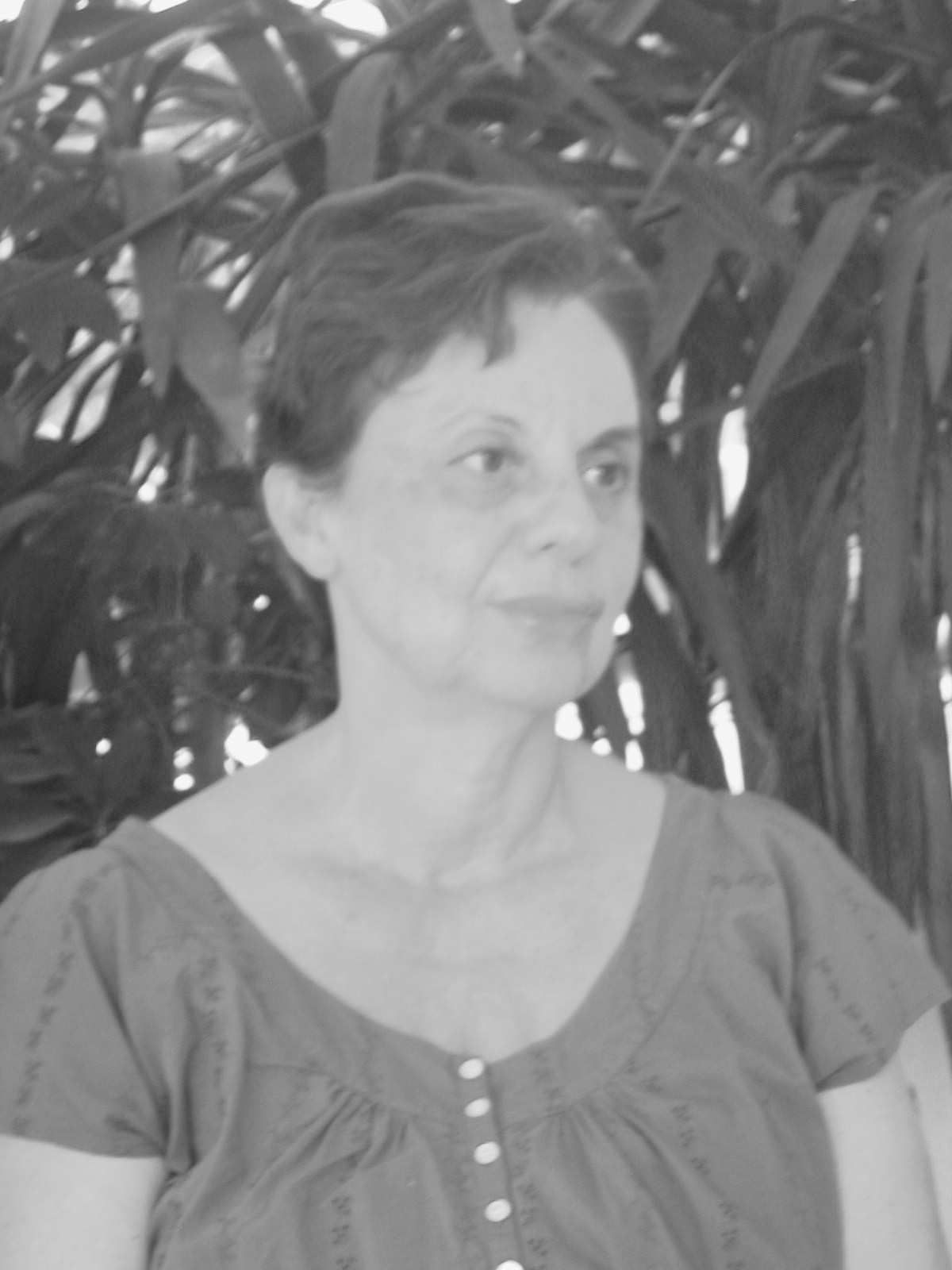 Greek novelist